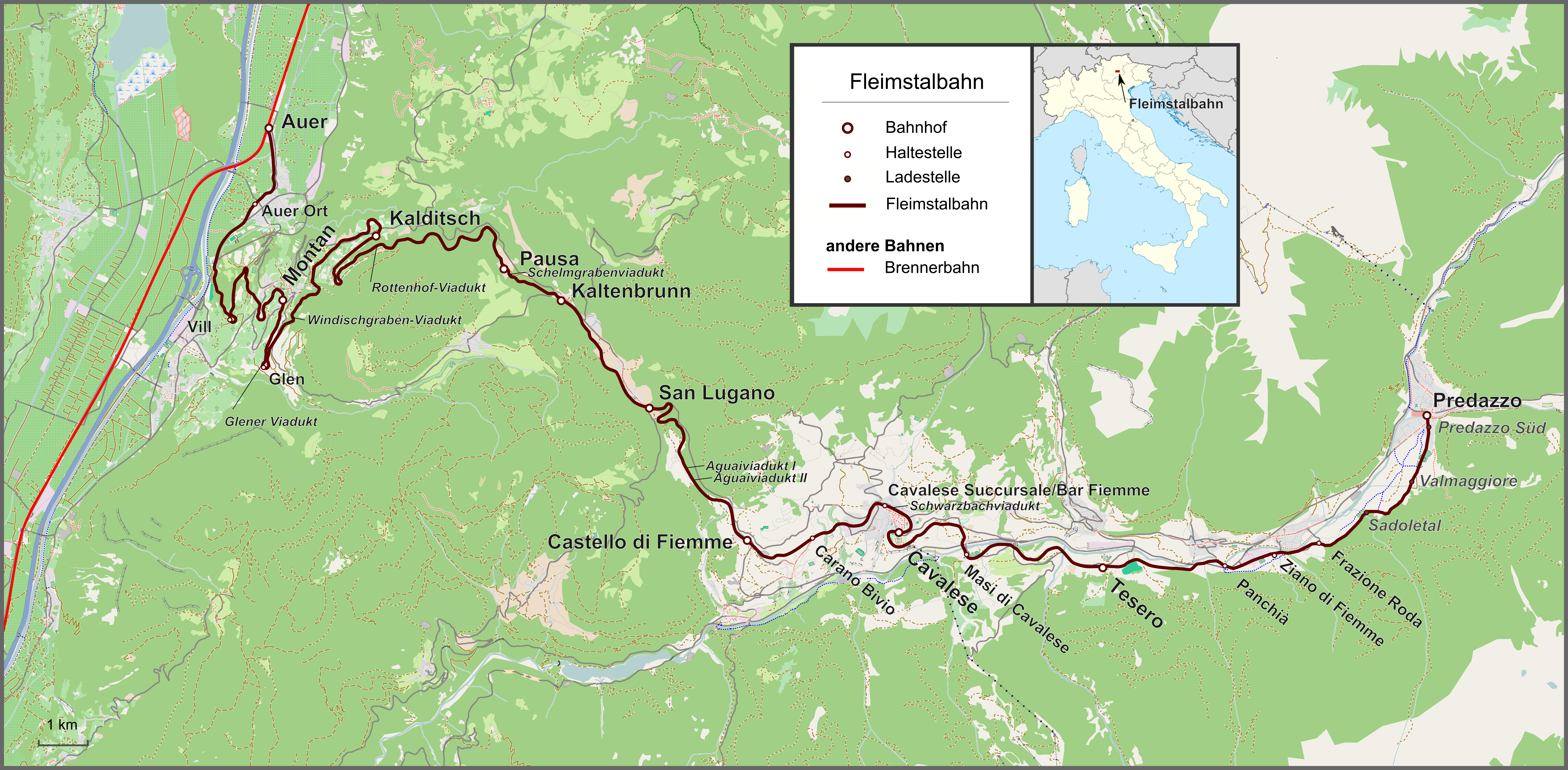 Map of the abandoned Val di Fiemme railway in Trentino, Italy